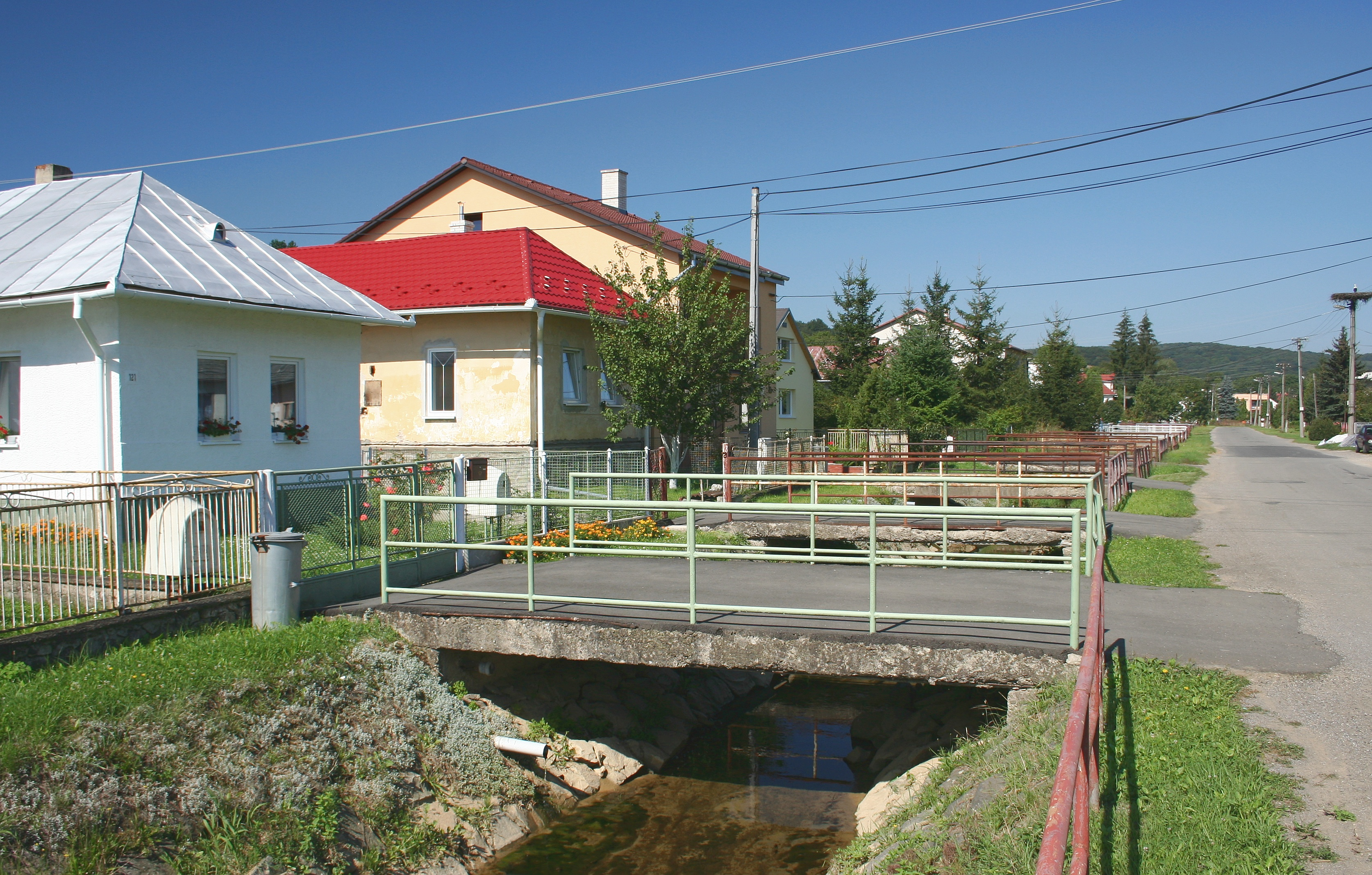 Topoľovka, Slovakia